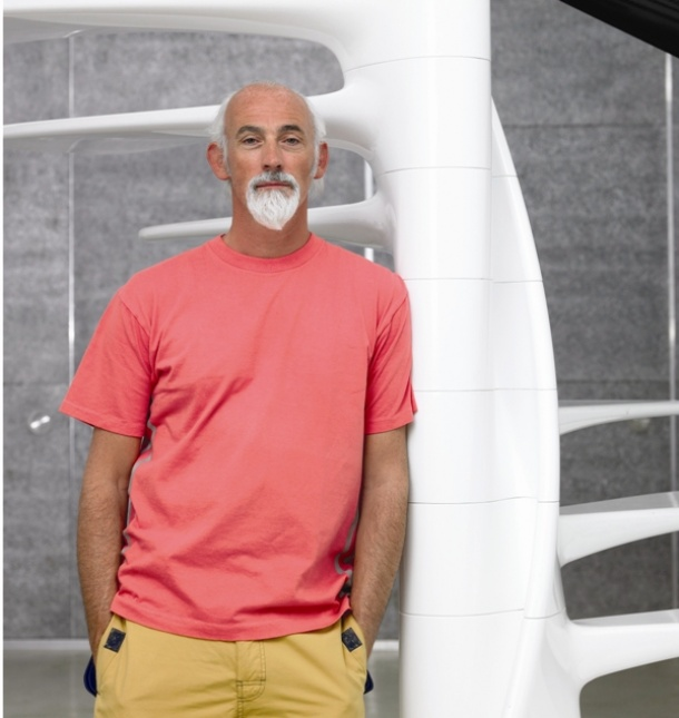 Portrait of Ross Lovegrove